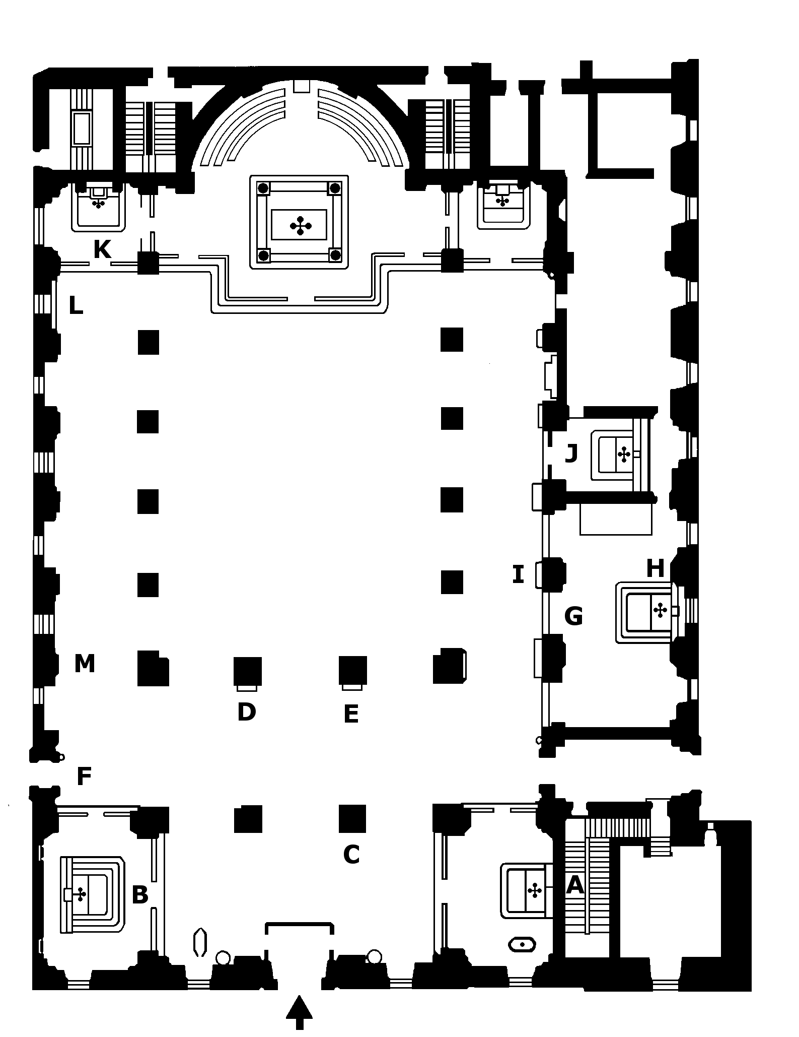 Ground plane of San Lorenzo in Damaso, Rome